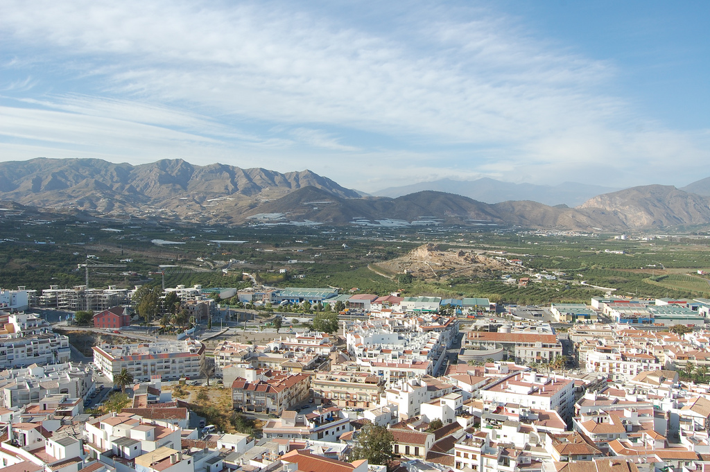 Vega de Salobreña, Spain.